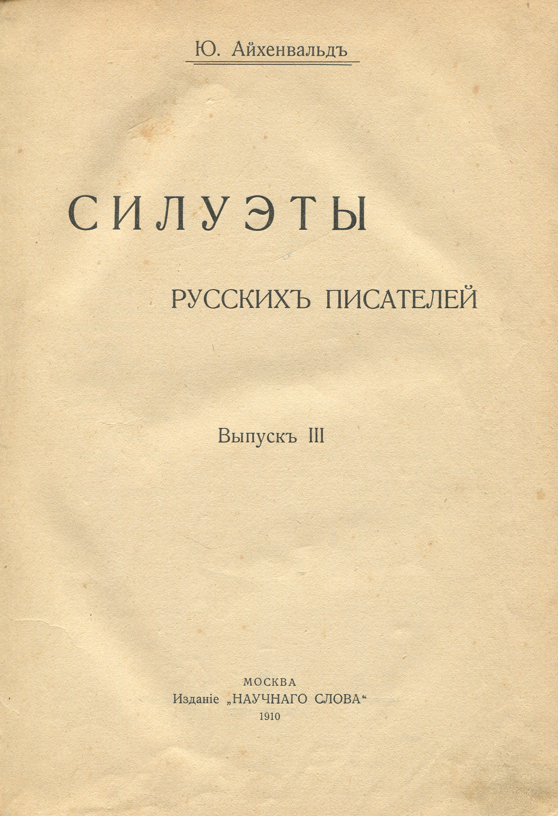 Yuly Aykhenvald. Silhouettes of Russian Writers. Release №3